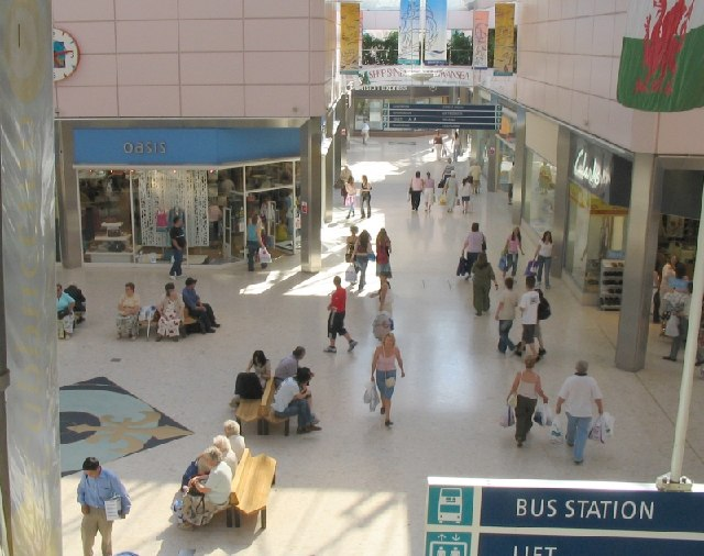 The Quadrant Shopping Centre, Swansea. This is the sitting area at the junction of the 4 arms of the centre.